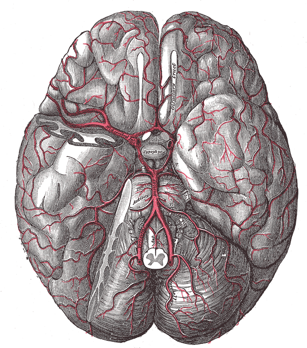 The arteries of the base of the brain. The tempora pole of the cerebrum and a portion of the cerebellar hemisphere have been removed on the right side.